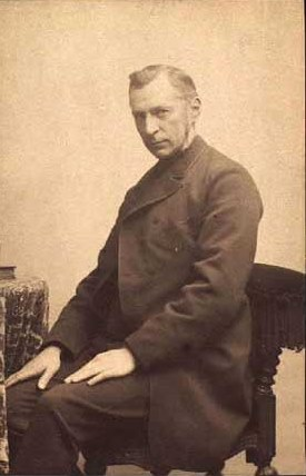 Anders Bjergbo Jensen Clausager (1845-1926), Danish farmer and politician, MP